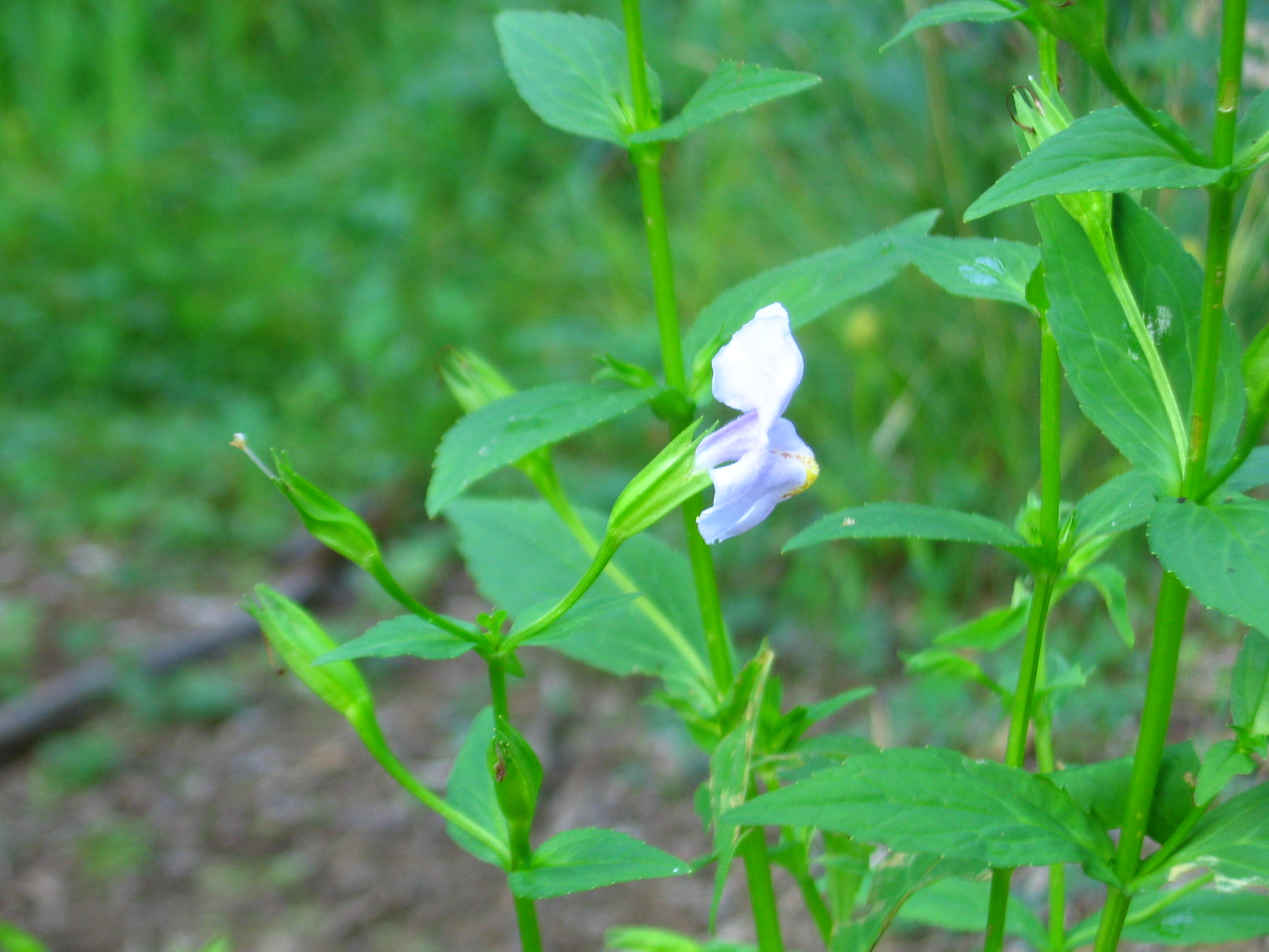 Photo of Mimulus ringens (Square-stemmed Monkey Flower) showing blossom, foliage, and habit.